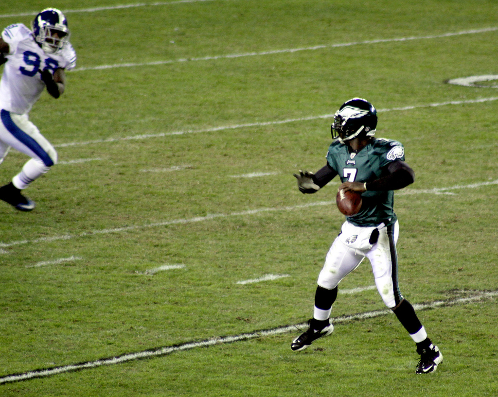 Michael Vick passes against the Indianapolis Colts during a 2010 game.